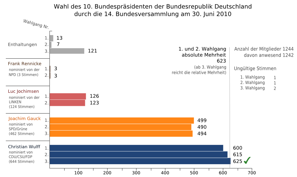 Results of German presidential election, 2010 by the Federal Convention, based on data provided by the website of the German Bundestag (see above); made with Gnumeric and Inkscape